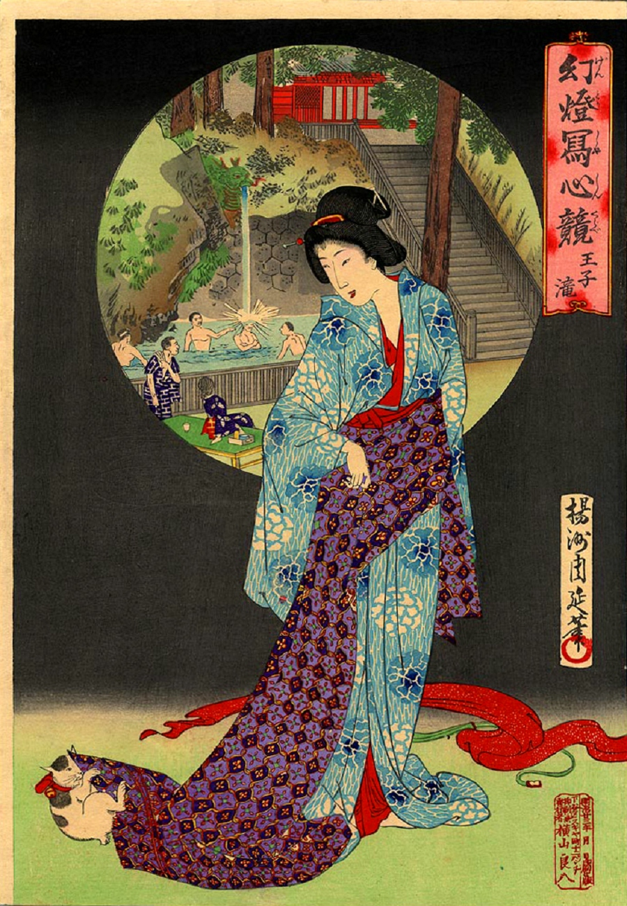 a bijin standing in front of a projected image of the waterfall at Ōji